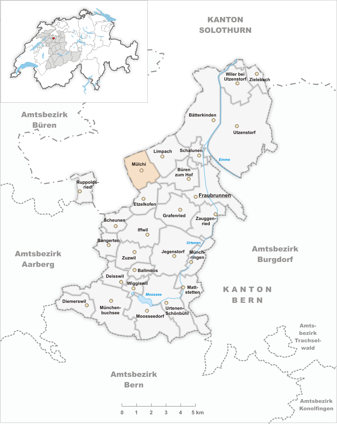 Municipality Mülchi